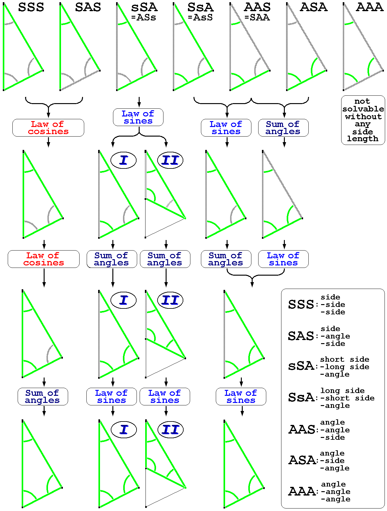 Overview of the particular steps when "solving a triangle" (calculating its sides and angles)